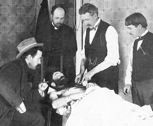 Killed in a shoot-out with Frank Reid, the city engineer for Skagway. Shows F.B. Whiting, surgeon for the White Pass and Yukon Railroad removing the bullet . Original image in Hegg Album 7, page 10 . Original photograph not by E.A. Hegg. In lower left corner of photograph: 78.A W&S. In lower left corner of mount: Case & Draper Subjects (LCTGM): Dead persons--Alaska--Skagway Subjects (LCSH): Smith, Jefferson Randolph, 1860-1898; Whiting, F.B.